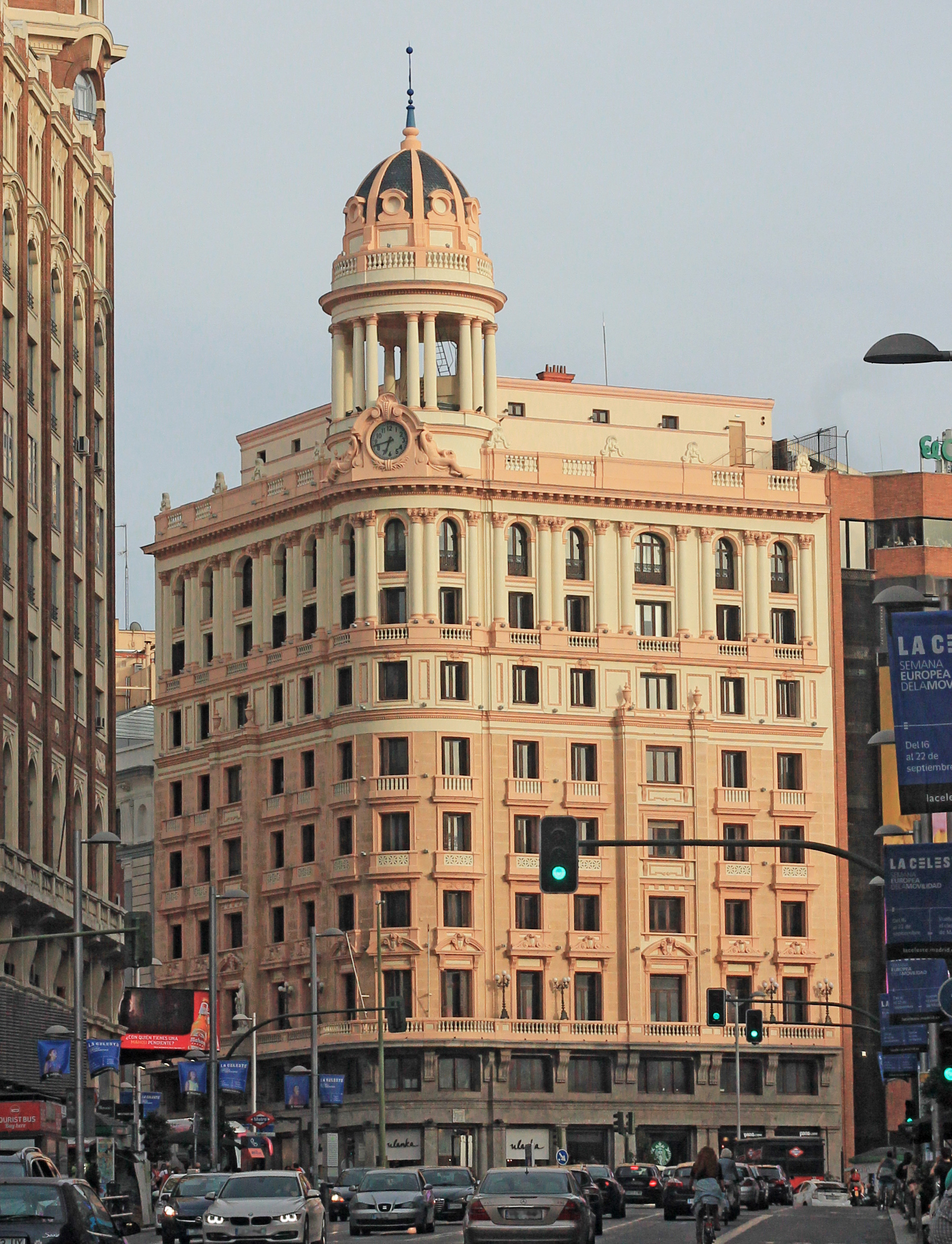 Façade of La Adriática Building in Madrid (Spain).